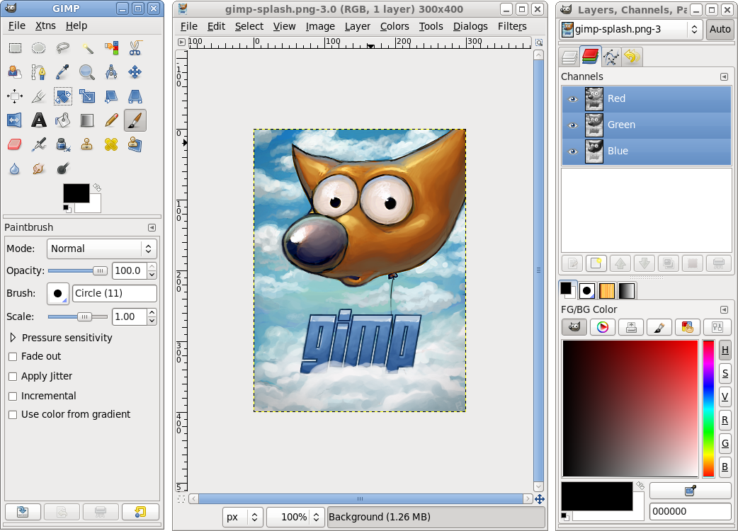 I logged into hello GNOME under Arch Linux and took a screenshot of the latest version of GIMP, editing the GIMP splash screen